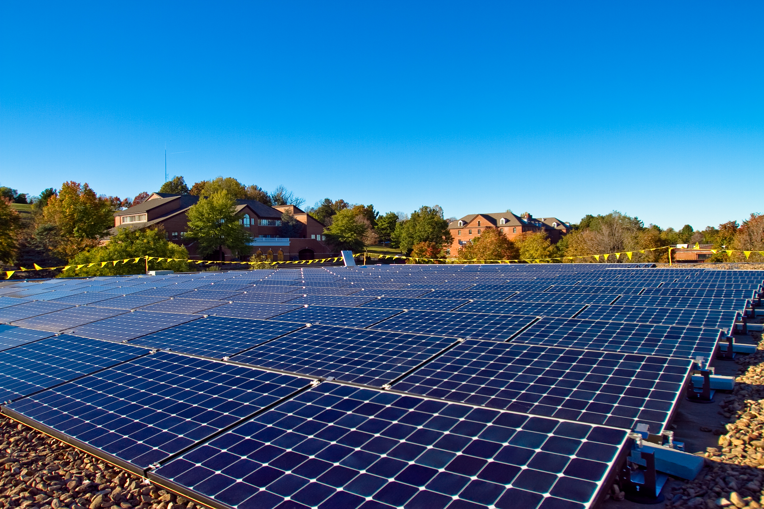 Solar electricity array on the roof of the library of Eastern Mennonite University